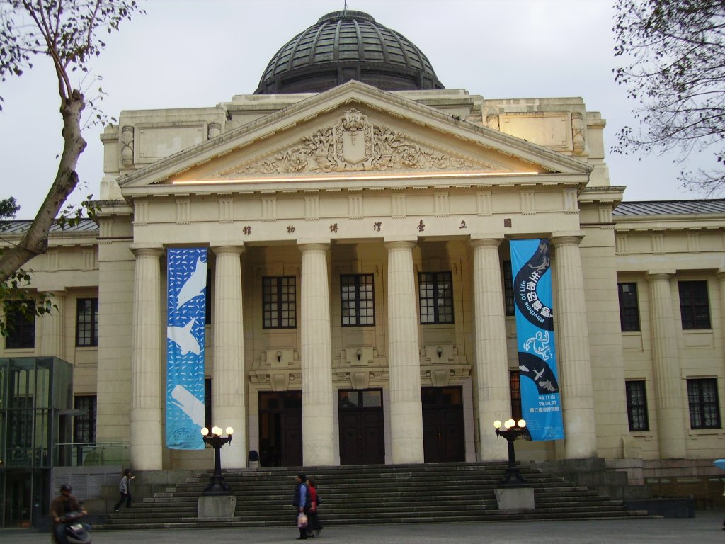 National Taiwan Museum front.